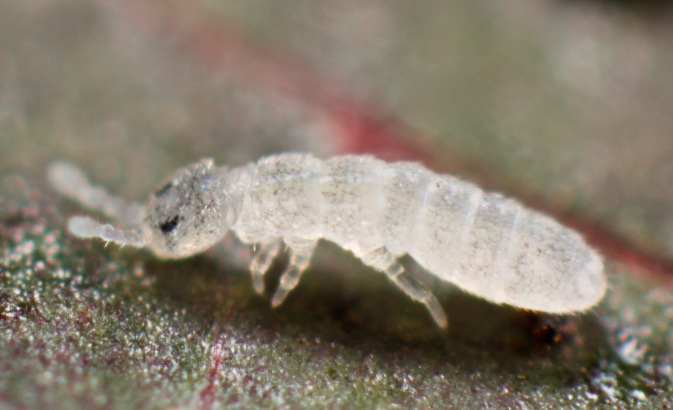 Proisotoma minuta from Par, England, United Kingdom.